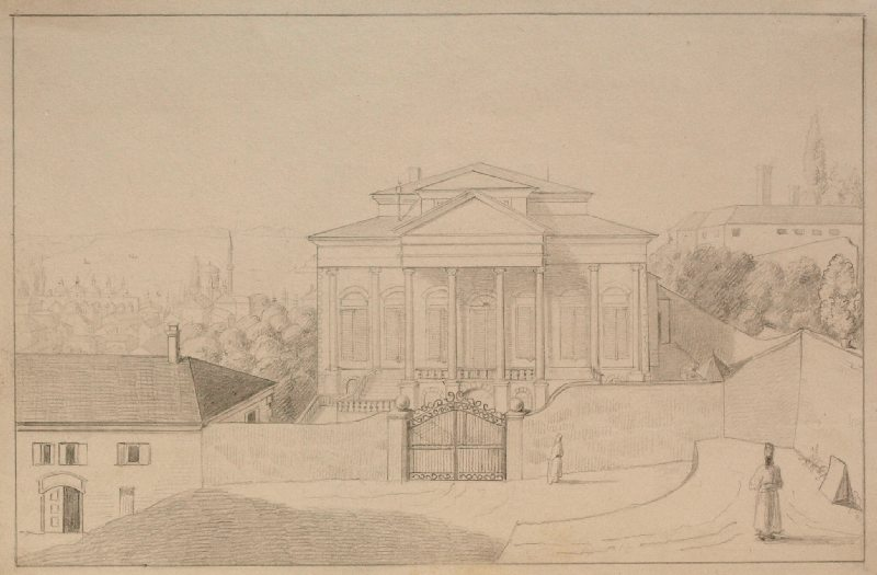 1840 view of the so-called Palazzo di Venezia, the former embassy of the Republic of Venice in Constantinople, which had been taken over by Austria in 1797. With a short interruption, it was to be the Austrian, then Austro-Hungarian embassy from 1798 to 1918, at which time the building was ceded to Italy. Palazzo di Venezia was to be the Italian embassy until 1936 when the capital of Turkey was transferred to Ankara. The Austrian post office in Constantinople was located inside the embassy, then from the 1850s in an annex on the embassy grounds, until it was finally moved to a building on the Galata waterfront in the early 1880s. Pencil drawing by Viennese orientalist and amateur painter Albrecht Krafft (1816-1847).